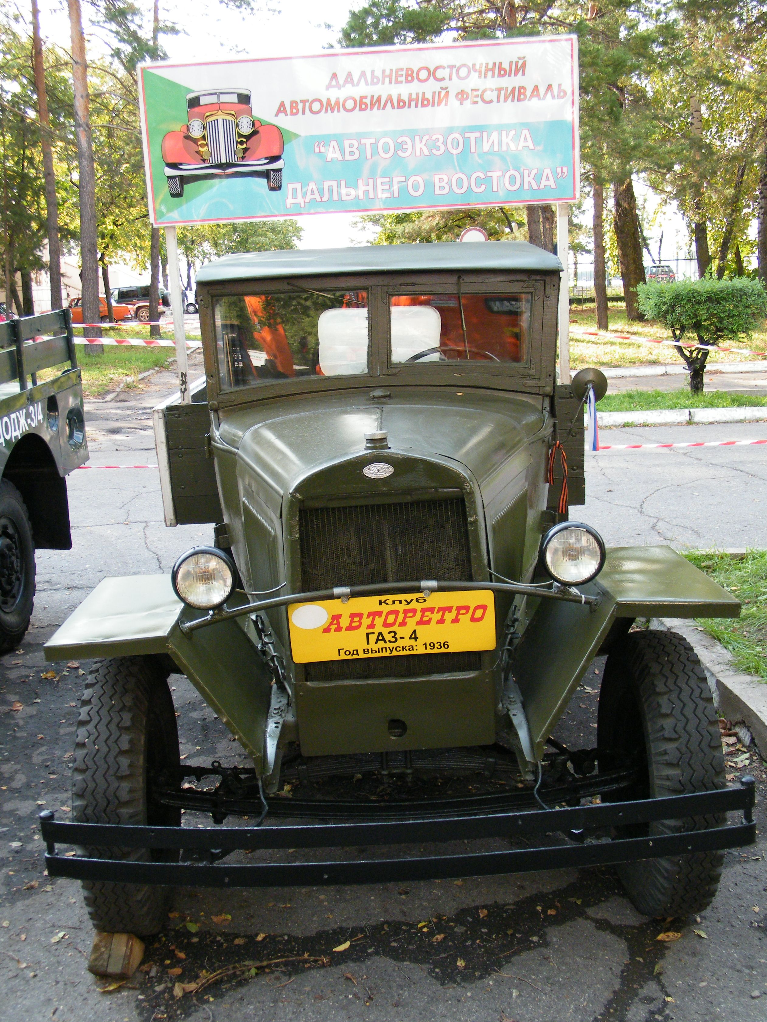 GAZ-4